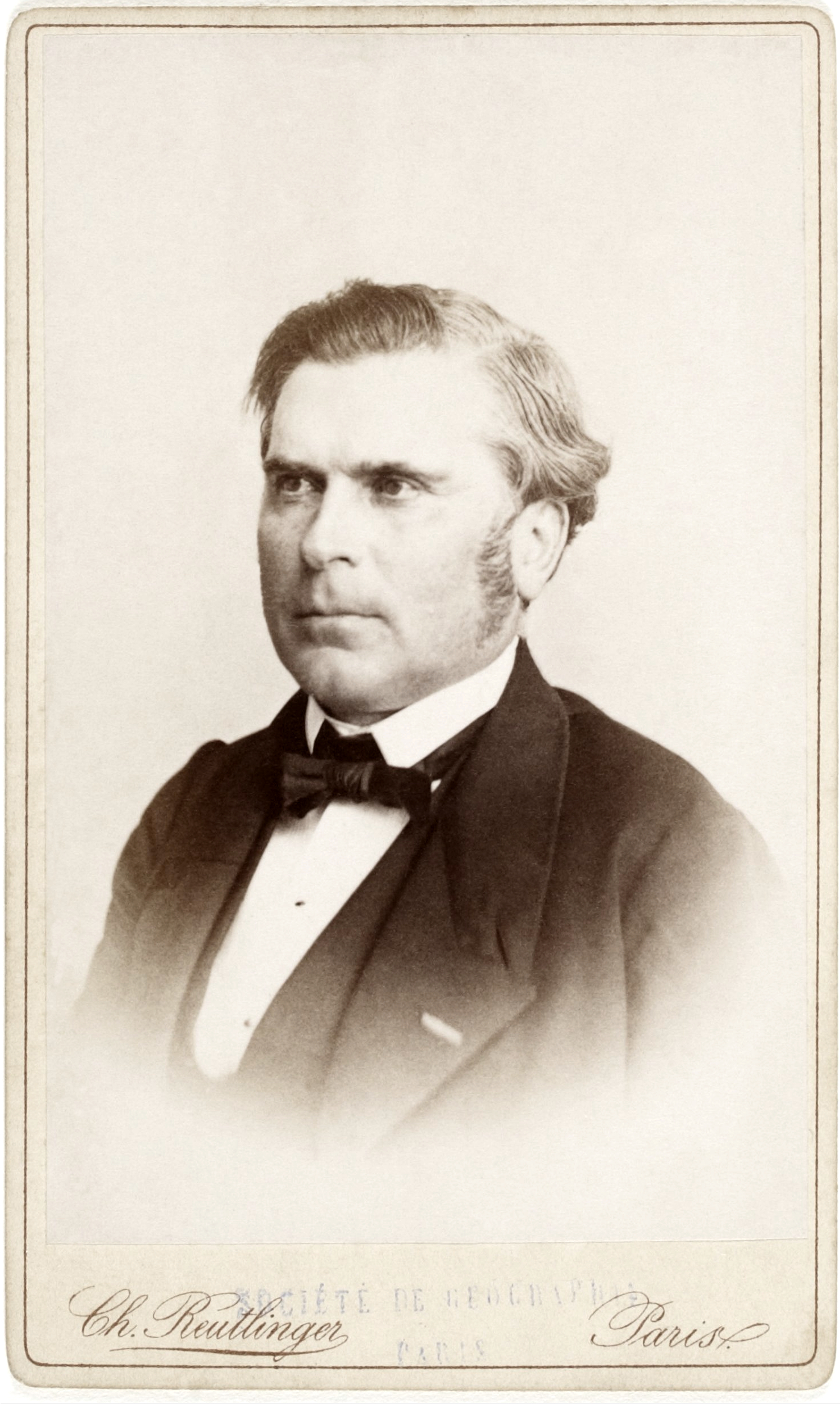 Edmond Hébert (1812-1890), french geologist and paleontologist.